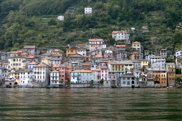 The village of Brienno seen from the Como lake